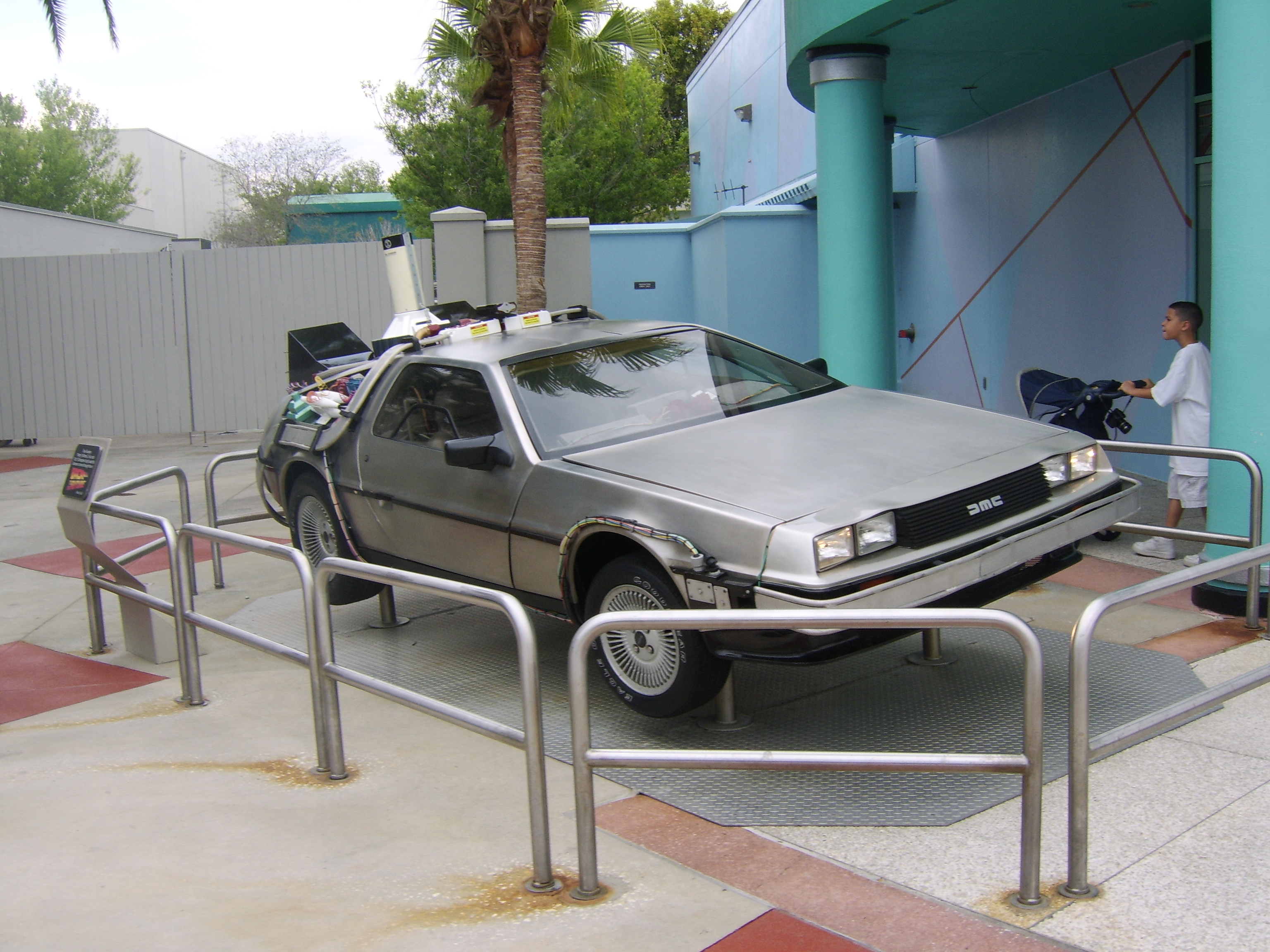 The DeLorean on display at the Back to the Future ride at Universal Studios Florida. The DeLorean has now been removed.